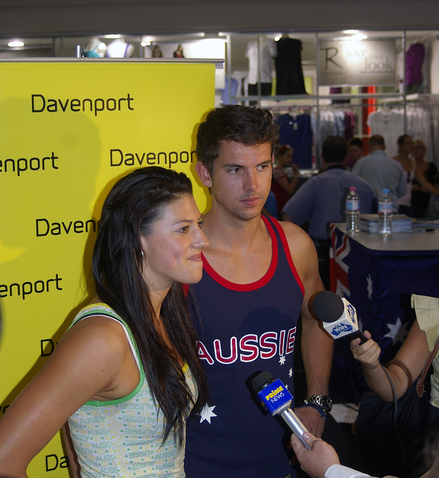 Eamon Sullivan being interviewed by Prime News and WIN News at the Wagga Wagga Marketplace for the launch of the Davenport range at Big W.